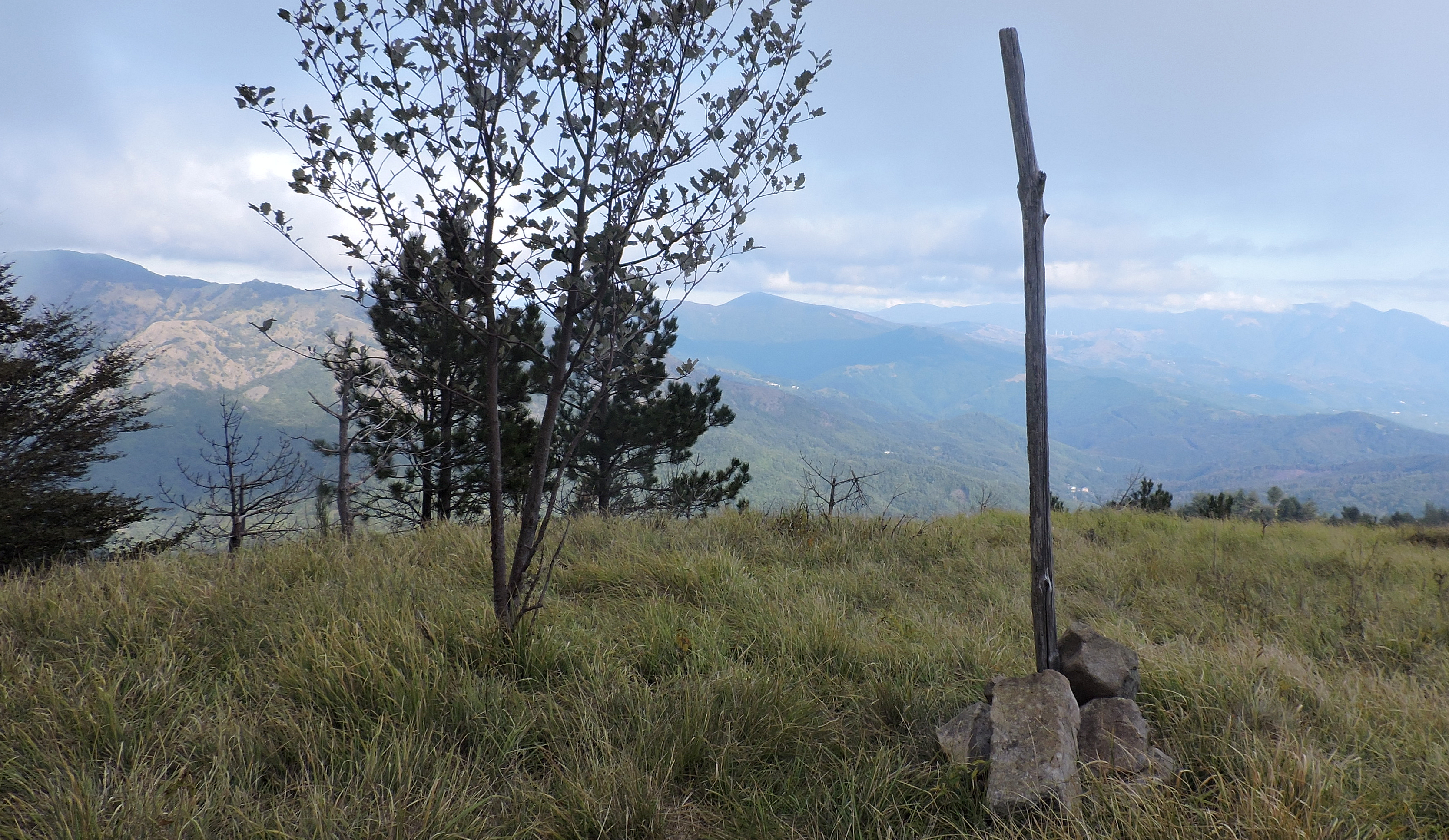 Monte Ghiffi (Ligurian Apennine): the summit